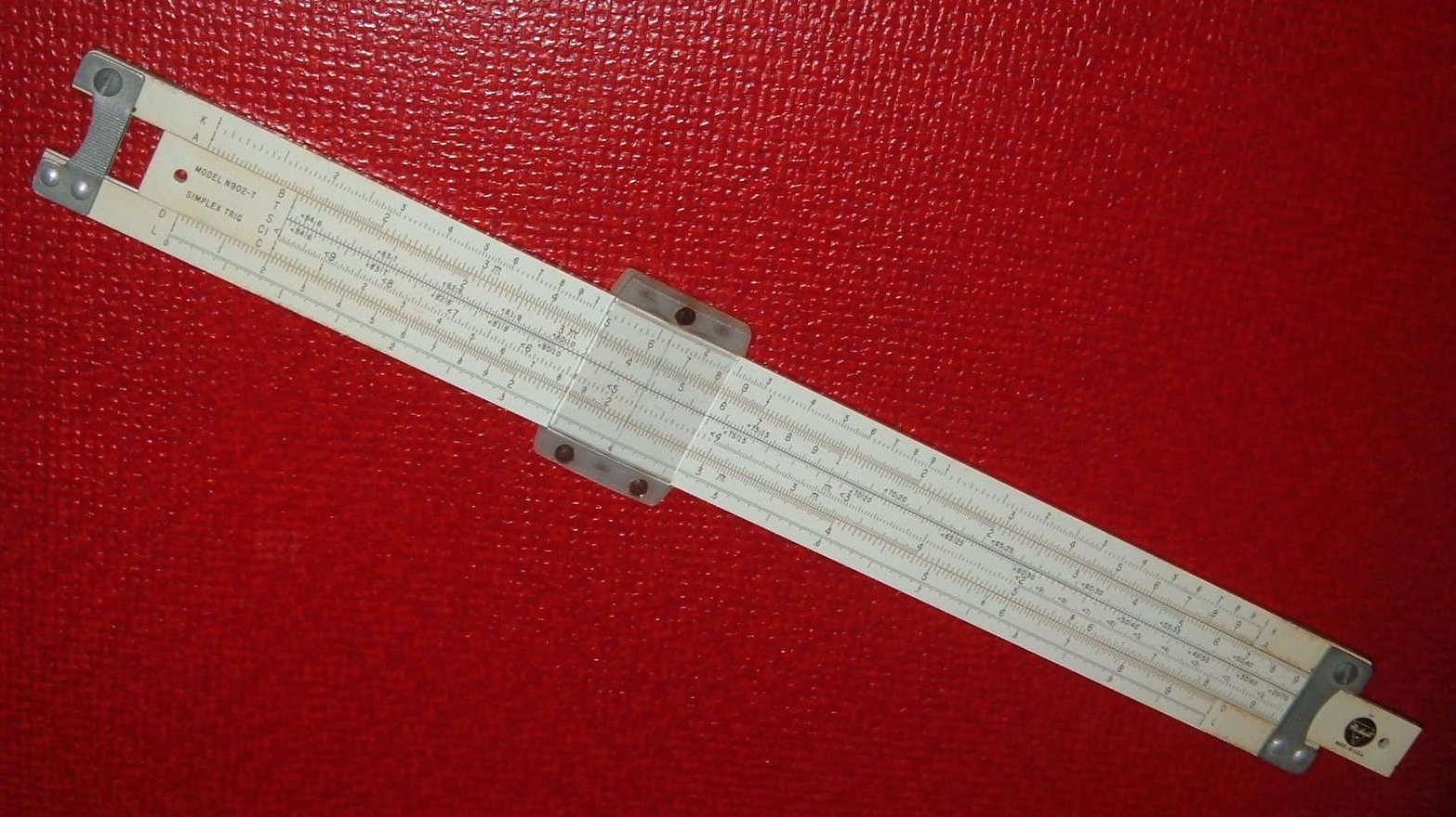 Slide rule, Pickett model N902-T simplex trig. This is a typical student model. The back has instructions for use and a table of fractional powers of 2, to the 64th, and their decimal equivalents.